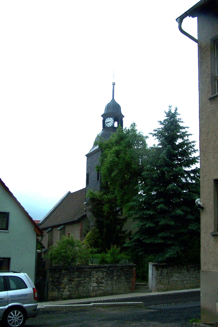 The church in Fischbach/Rhön.